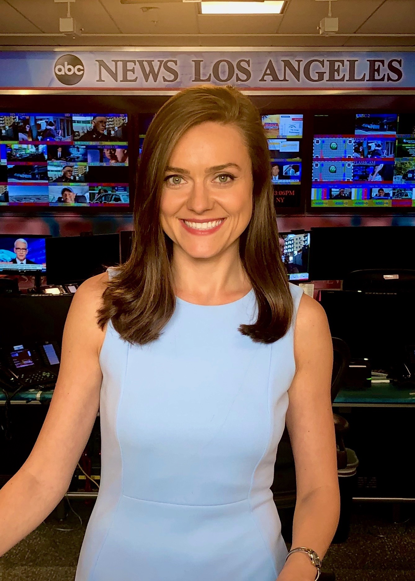 Headshot of reporter Natalie Brunell at the ABC News Los Angeles anchor desk